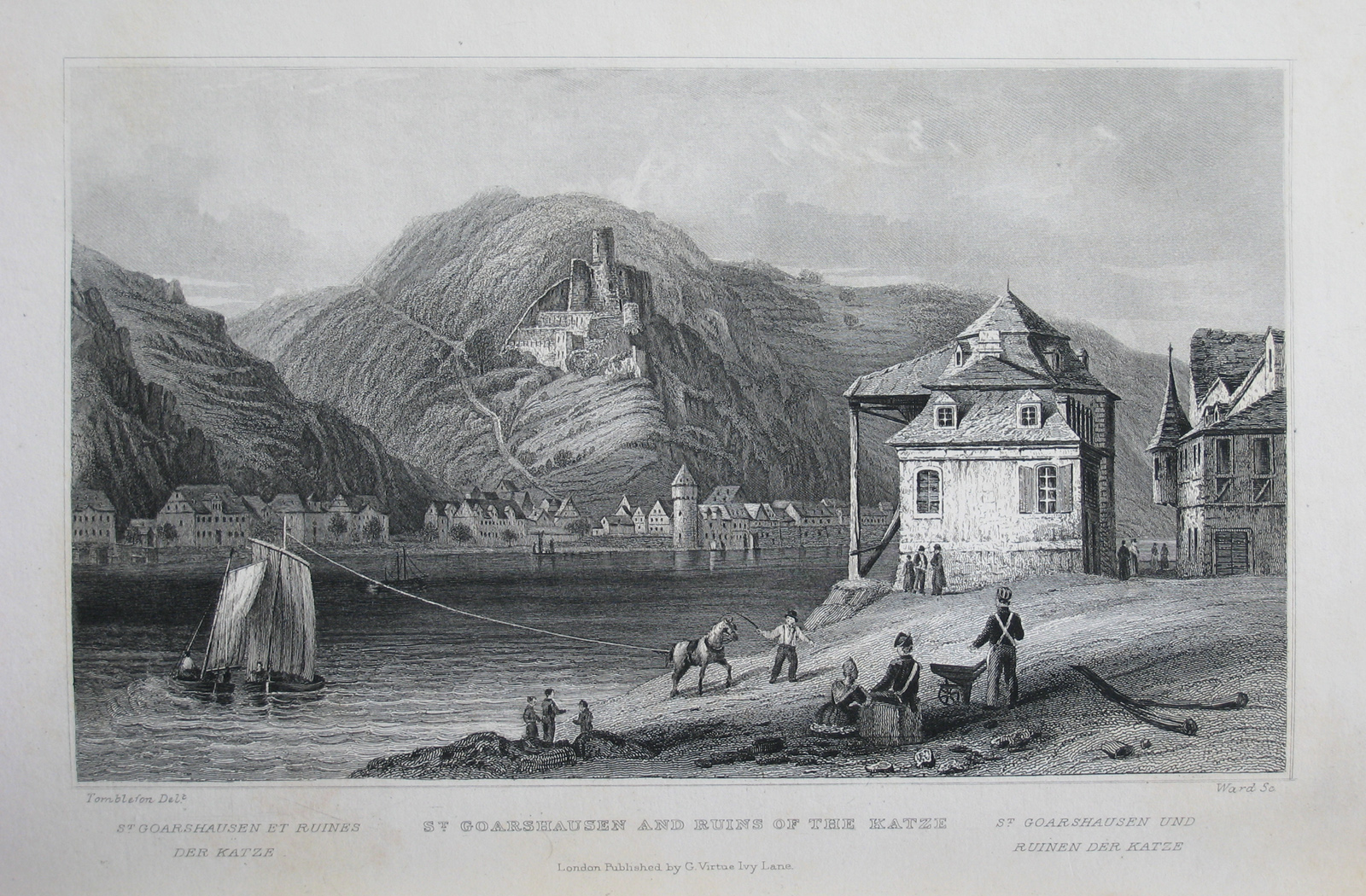 The steel engraving shows the village St Goarshausen and the ruins of castle Katz on the Middle Rhine in Germany, photo taken from "Vues du Rhin" by Tombleson (around 1850)